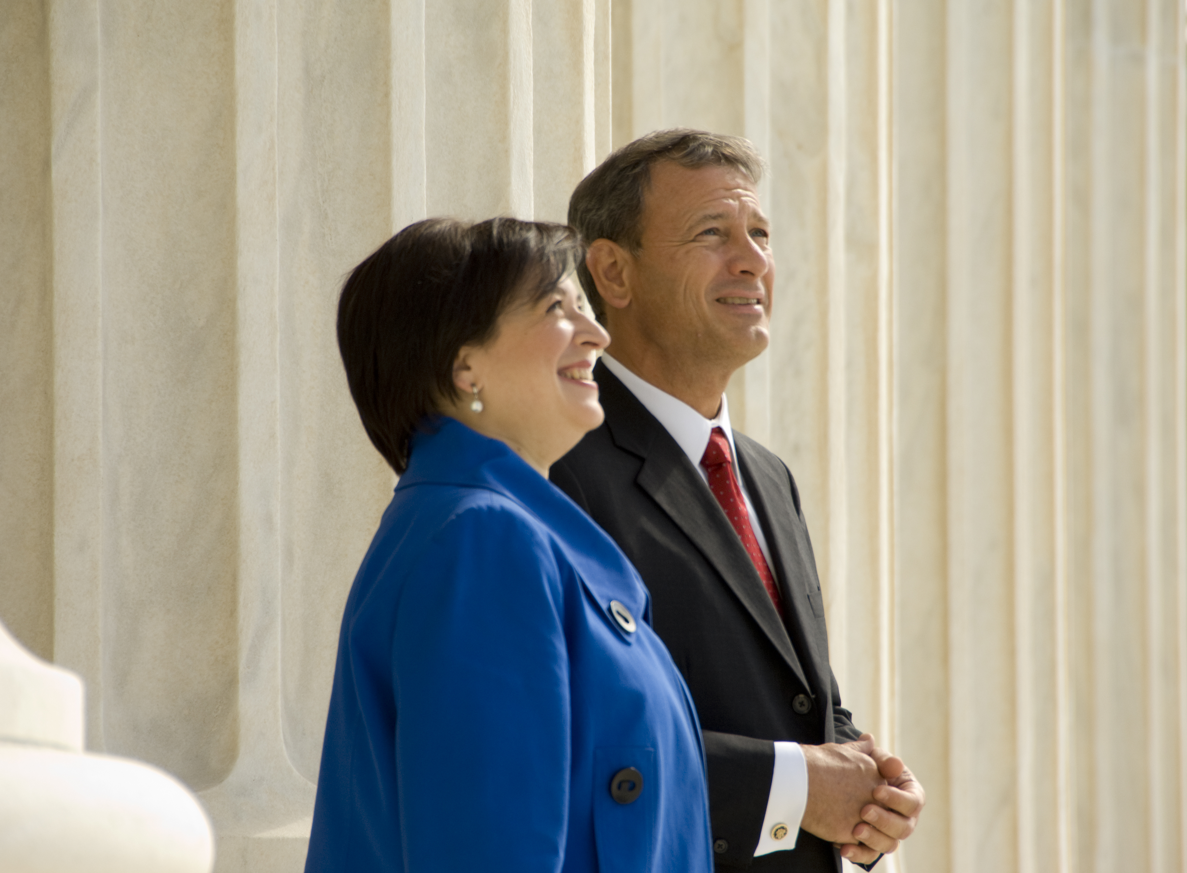 Chief Justice John G. Roberts, Jr. and Justice Elena Kagan pose at the top of the steps of the Supreme Court Building, following her formal Investiture Ceremony on October 1, 2010.